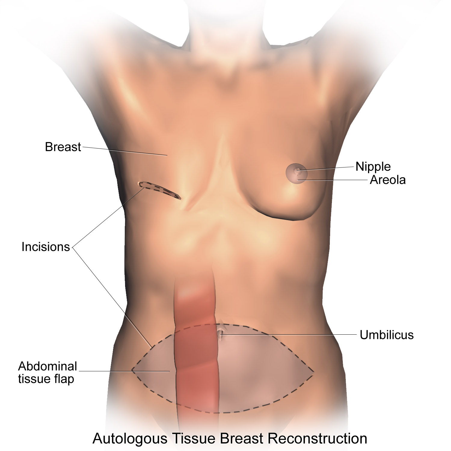 Breast Reconstruction - TRAM Procedure. See a related animation of this medical topic.